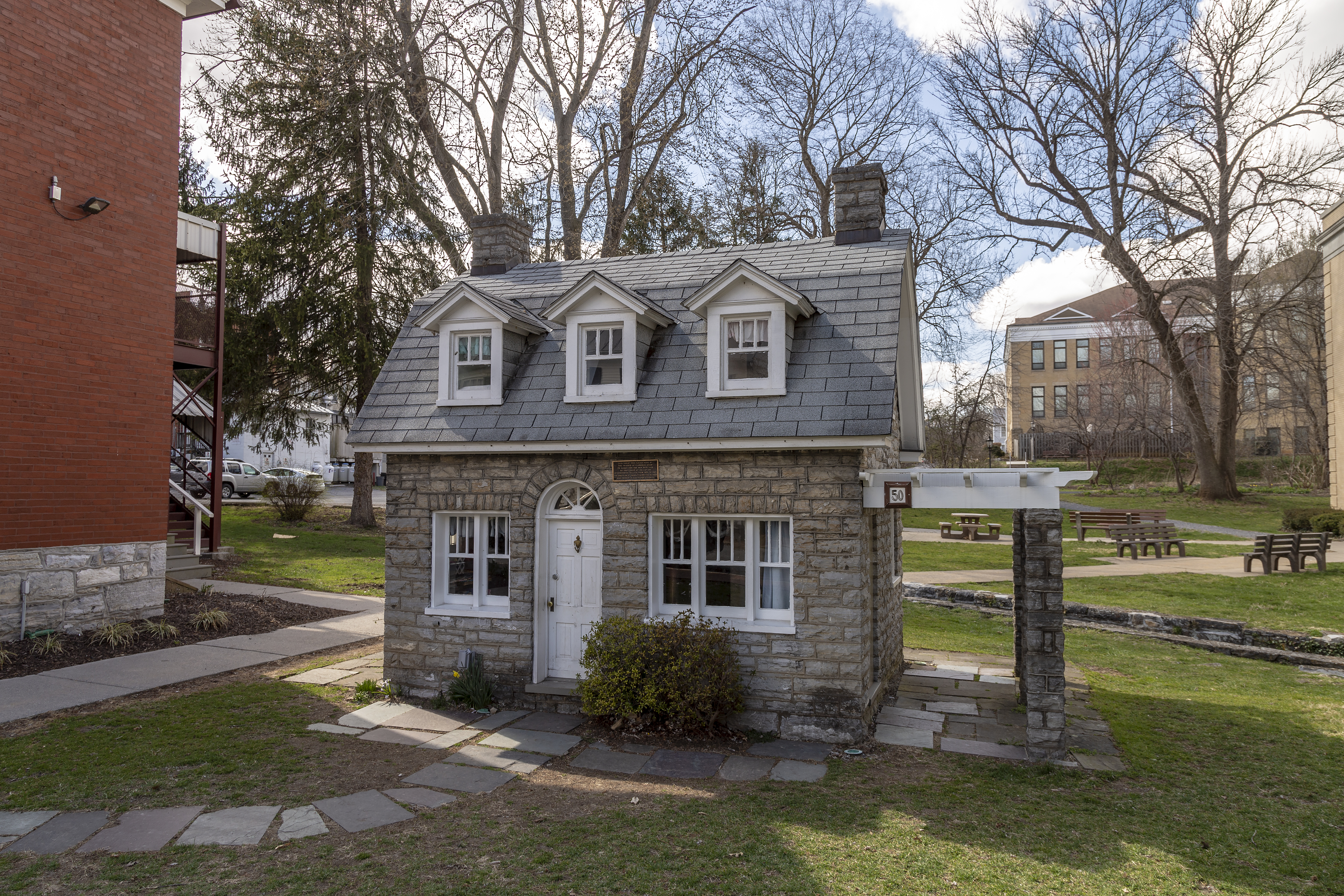 The Little House in Shepherdstown, West Virginia, USA. The Little House was built as a play structure for participants in early childhood development classes at Shepherd University. The house is a miniature house, only 6 feet (2m) to the eaves, with child-sized interiors and furniture, all fully finished.